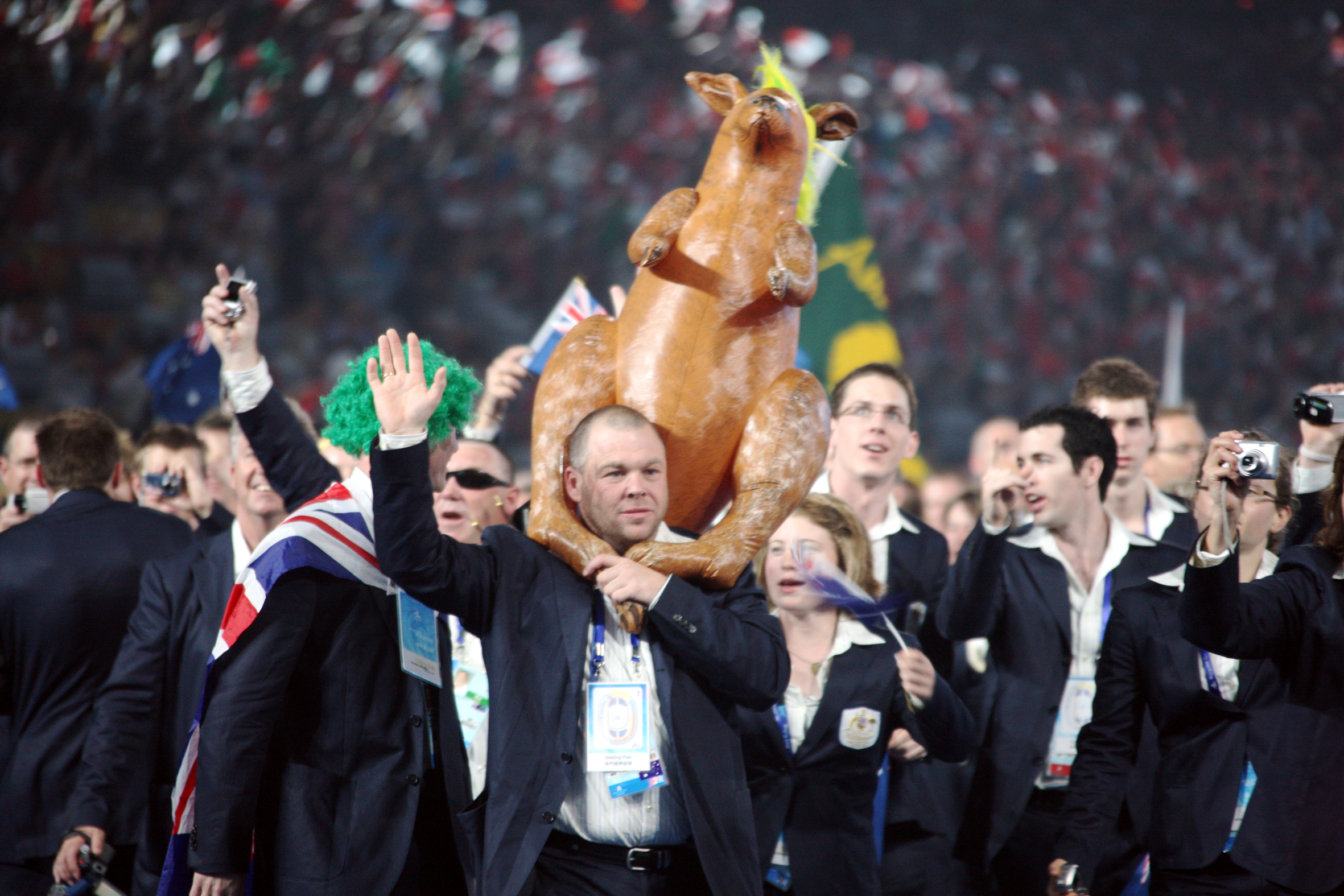 Australian Paralympic Team members during the opening ceremony of the Beijing 2008 Paralympic Games (1 of 3)